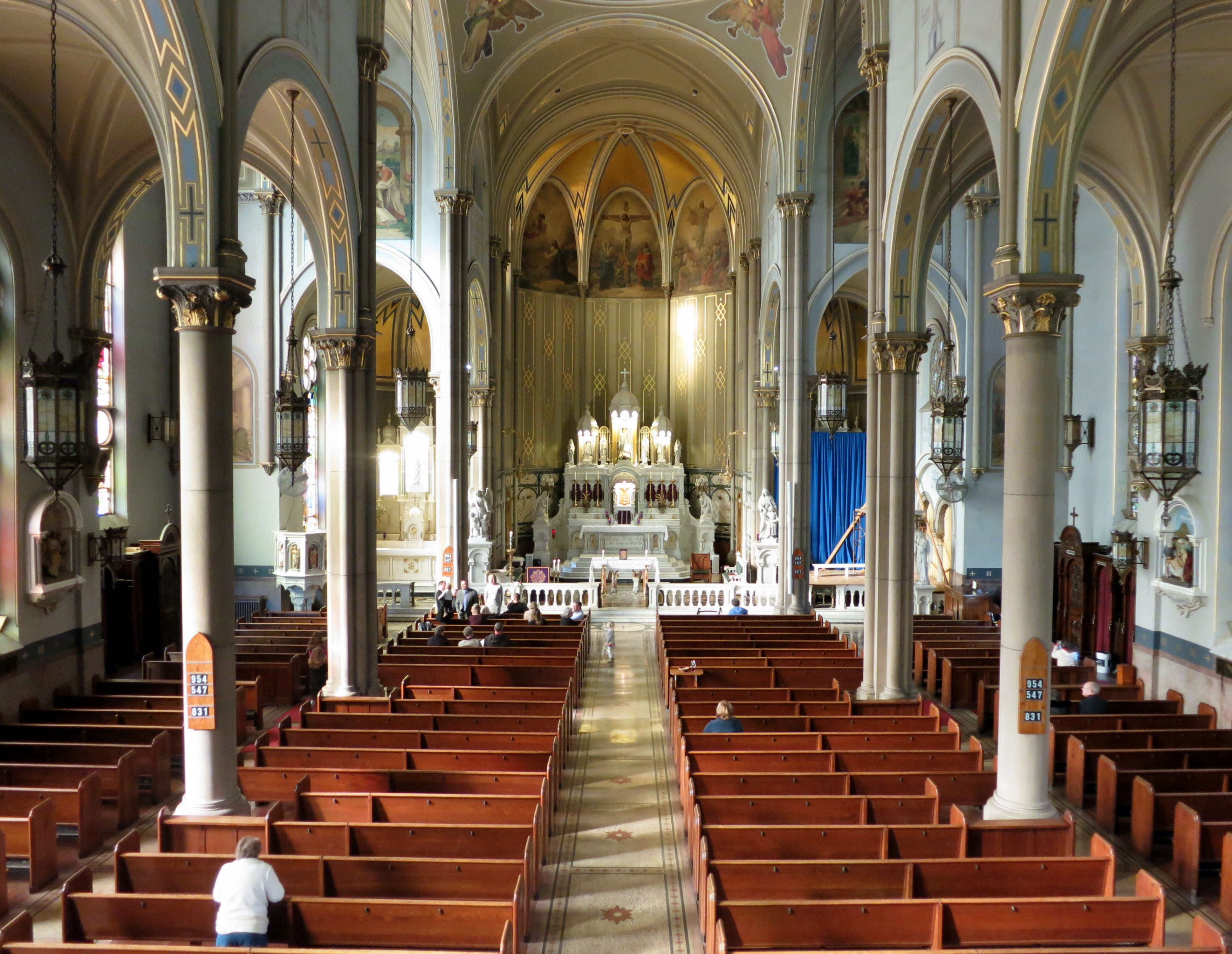 Saint Mary Catholic Church (Dayton, Ohio) - nave, view from the loft